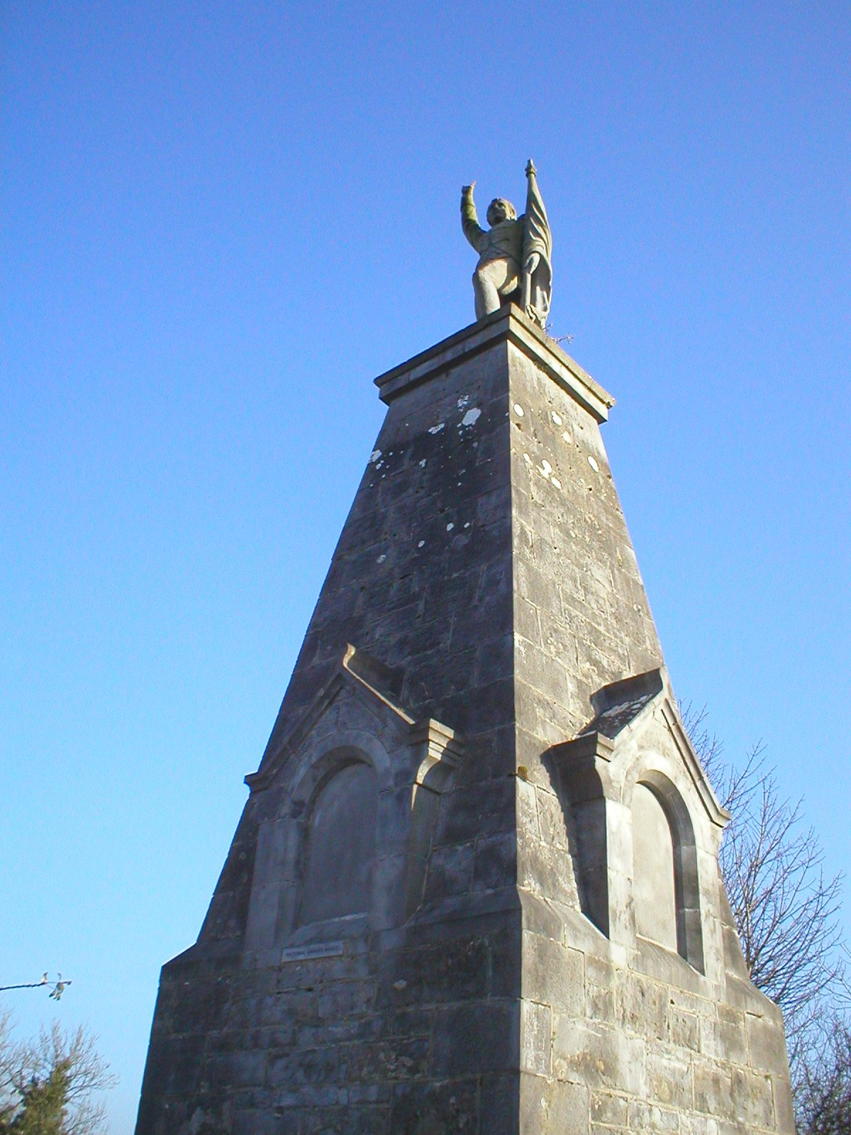 The Teeling Monument, erected in honor of Bartholomew Teeling on the centenary of the Battle of Carricknagat during the Irish Rebellion of 1798, at Collooney, County Sligo, Ireland.